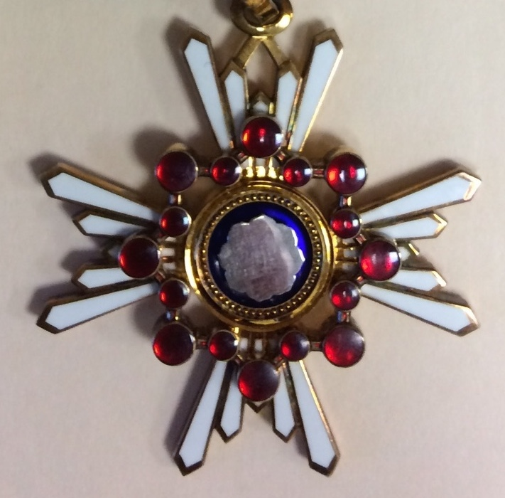 Order of the Sacred Treasure, Third Class, (Japanese decoration) - medal. The specimen exhibited in the picture was the one awarded to John Curtis Perry.